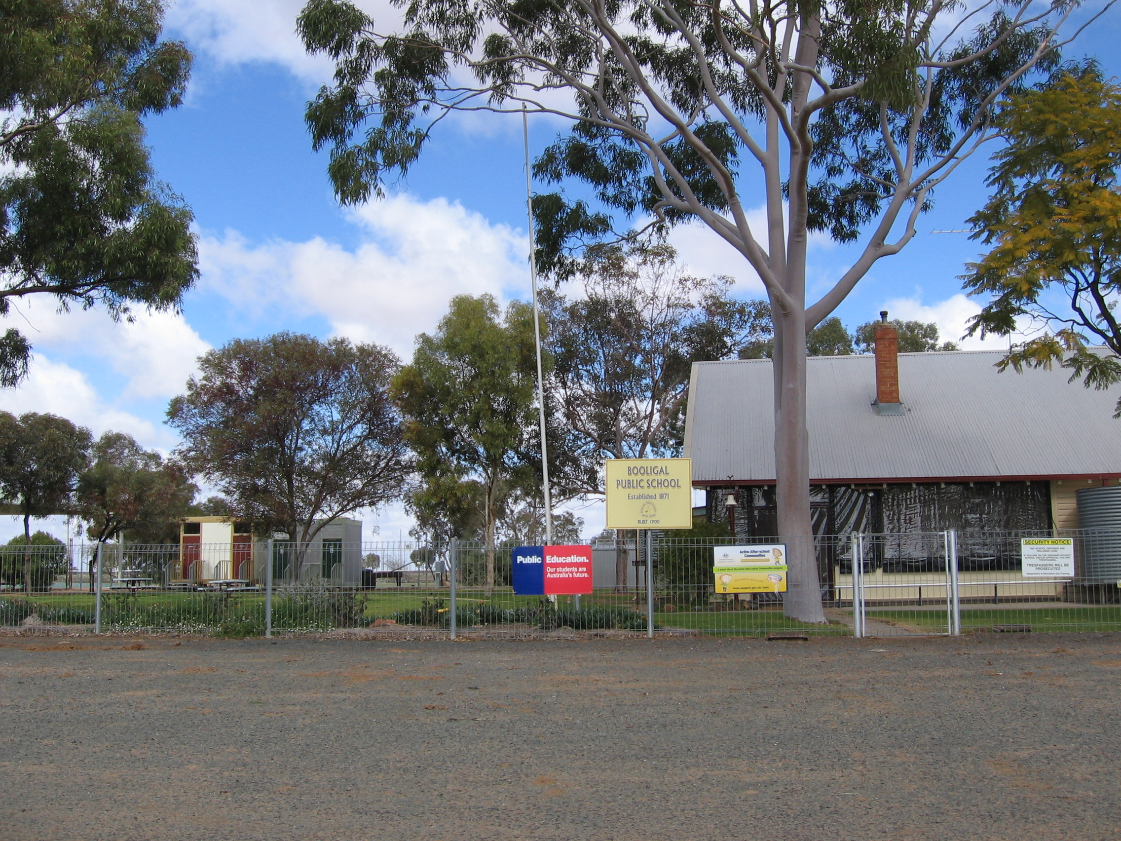 Public school at Booligal, New South Wales